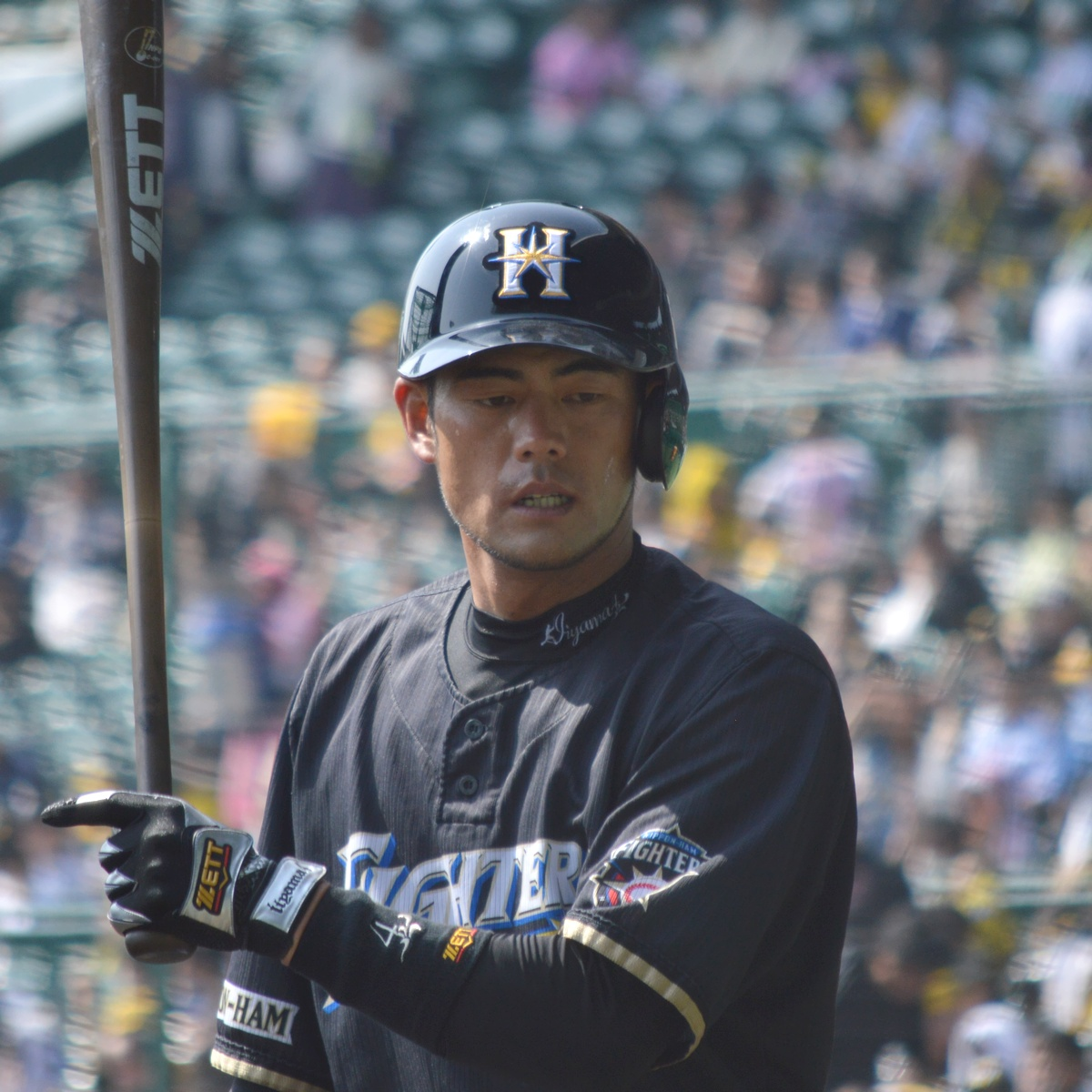 NF-Yuji-Iiyama20130309